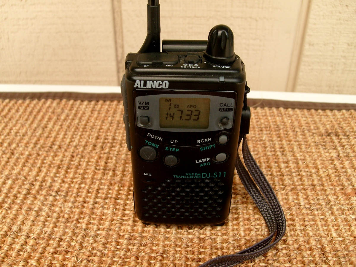 Low power 2 meter band amateur handheld transceiver.